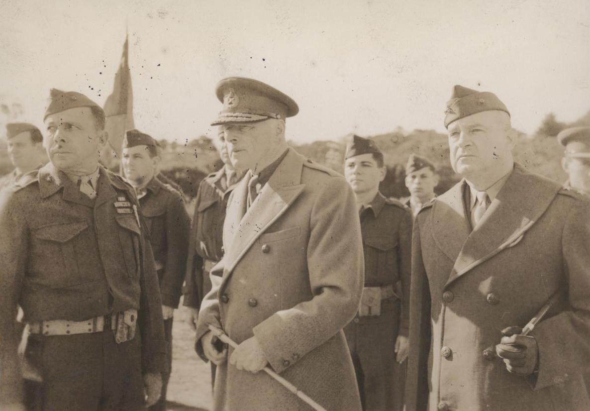 General Alexander Vandegrift and Colonel Amor Sims, Commanding Officer, 7th Marines review the regiment. From the John S. Day, Sr. Collection (COLL/2927), Marine Corps Archives & Special Collections OFFICIAL USMC PHOTOGRAPH